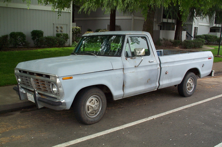 Ford pickup from the left sideTruck 1